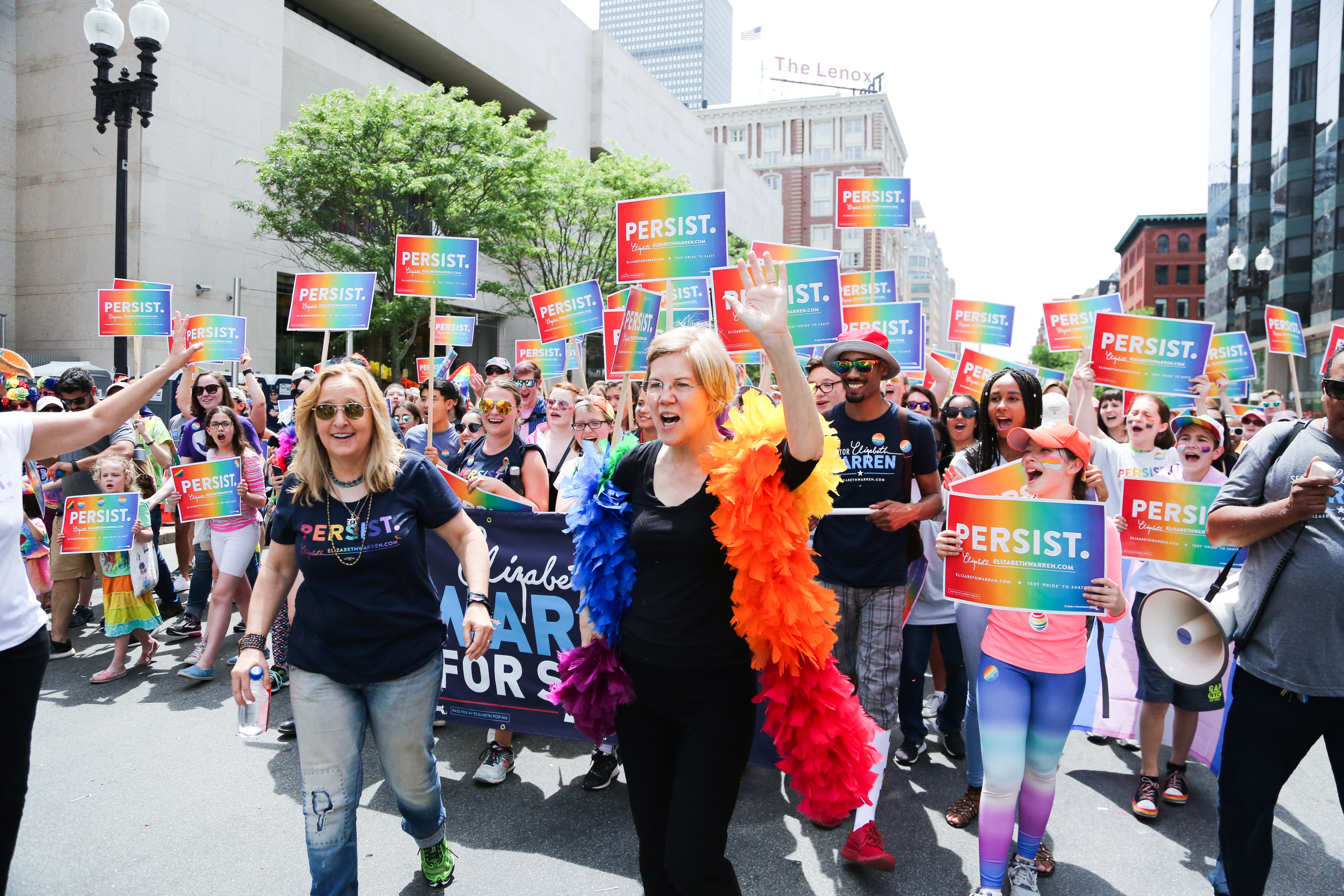 Elizabeth Warren